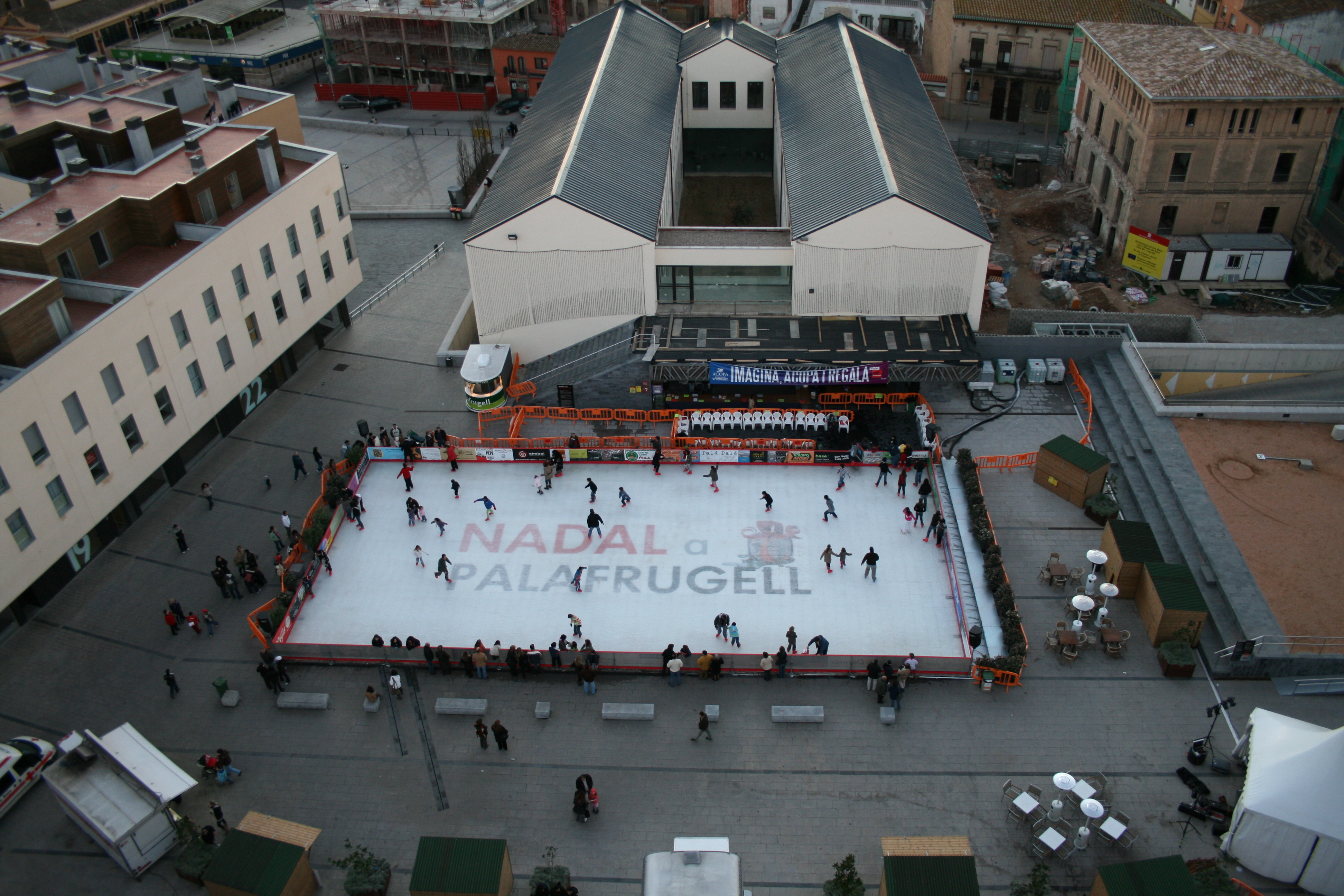 Typical mobile ice skating rink in open aire.